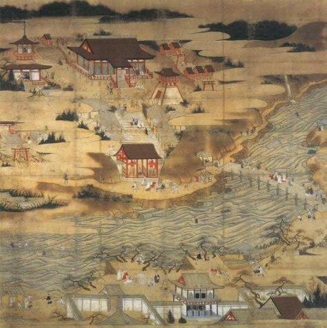 Horinji Sankei Mandala, Horinji, Kyoto, Kyoto, Japan